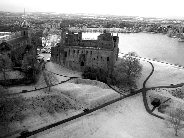 Near infra-red kite aerial photo of Linlithgow Palace.